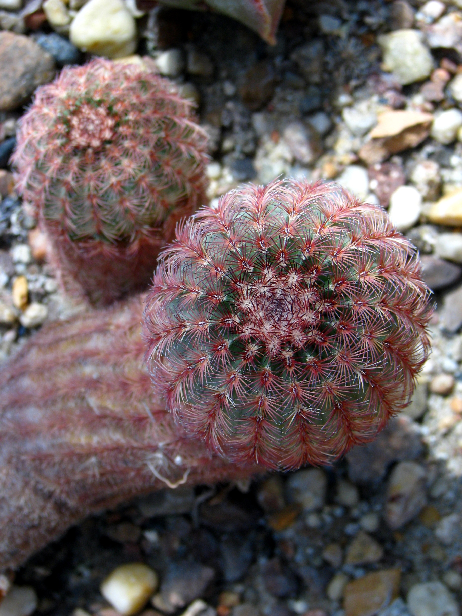 Echinocereus pectinatus, cultivated in Wrocław University Botanical Garden, Poland.